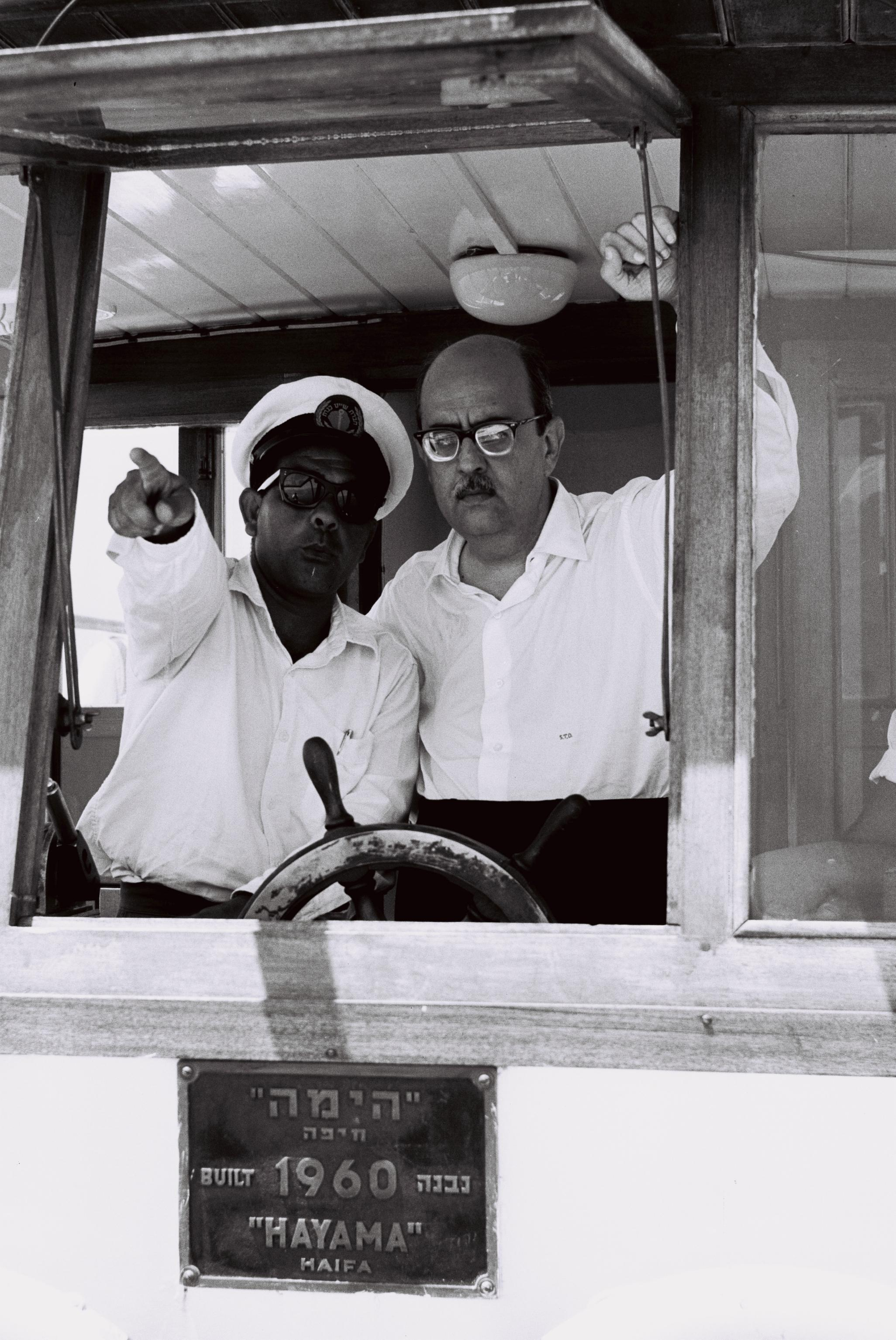 San Tiago Dantas, Brazil Minister of Foreign Affairs, touring the Sea of Galilee, 1962